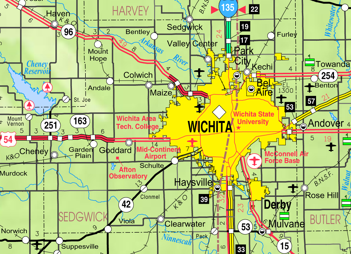 This map of Sedgwick County, Kansas, USA, is copied at a resolution of 300 pixels/inch from the original PDF file.